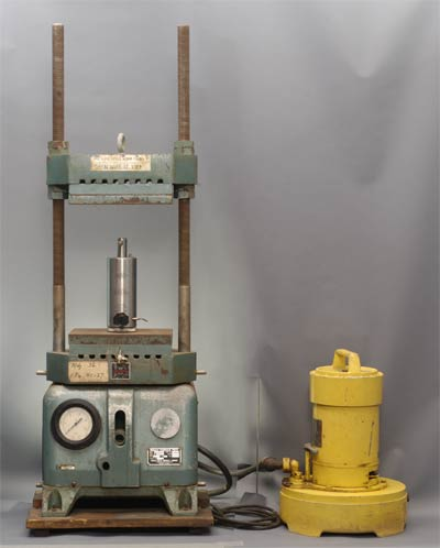 Genetic French Press